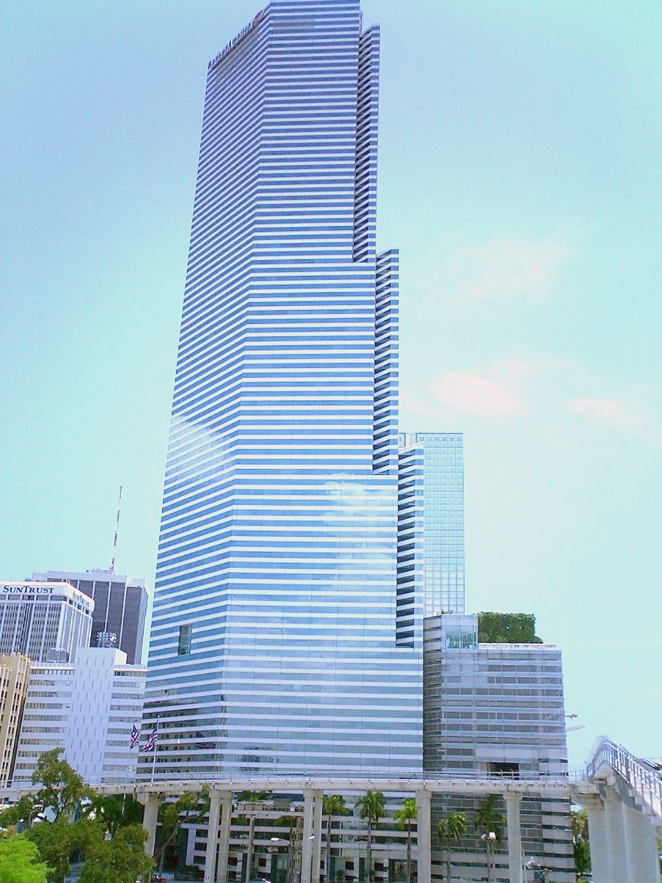 Photo taken by Marc Averette